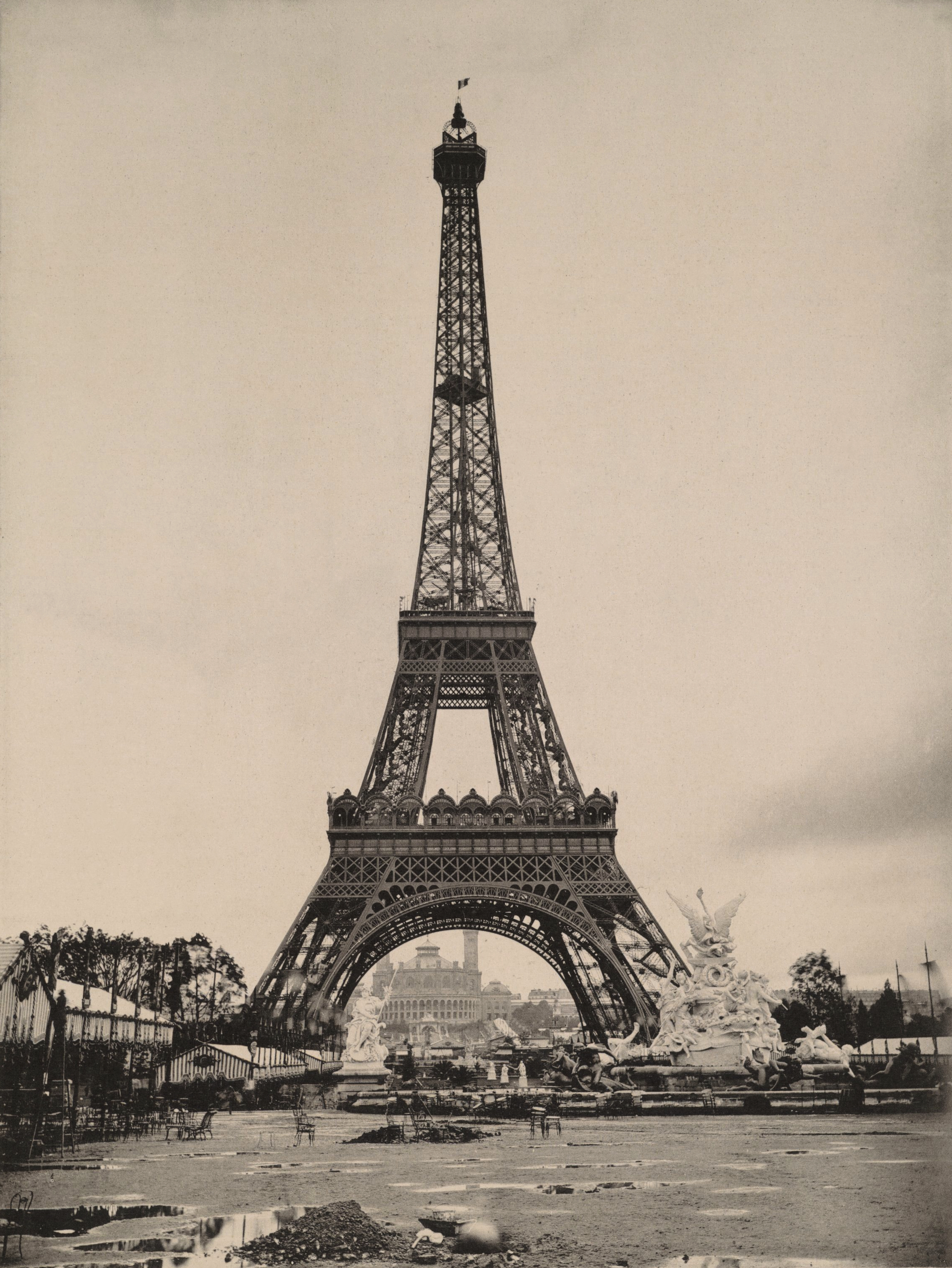 View of the Champ-de-Mars, with the Eiffel Tower and the Trocadéro Palace in the background. The Trocadéro, which had been constructed for the previous World Fair in 1878, was destroyed by a fire in 1935.